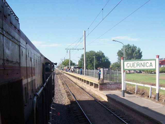 Guernica Train Station